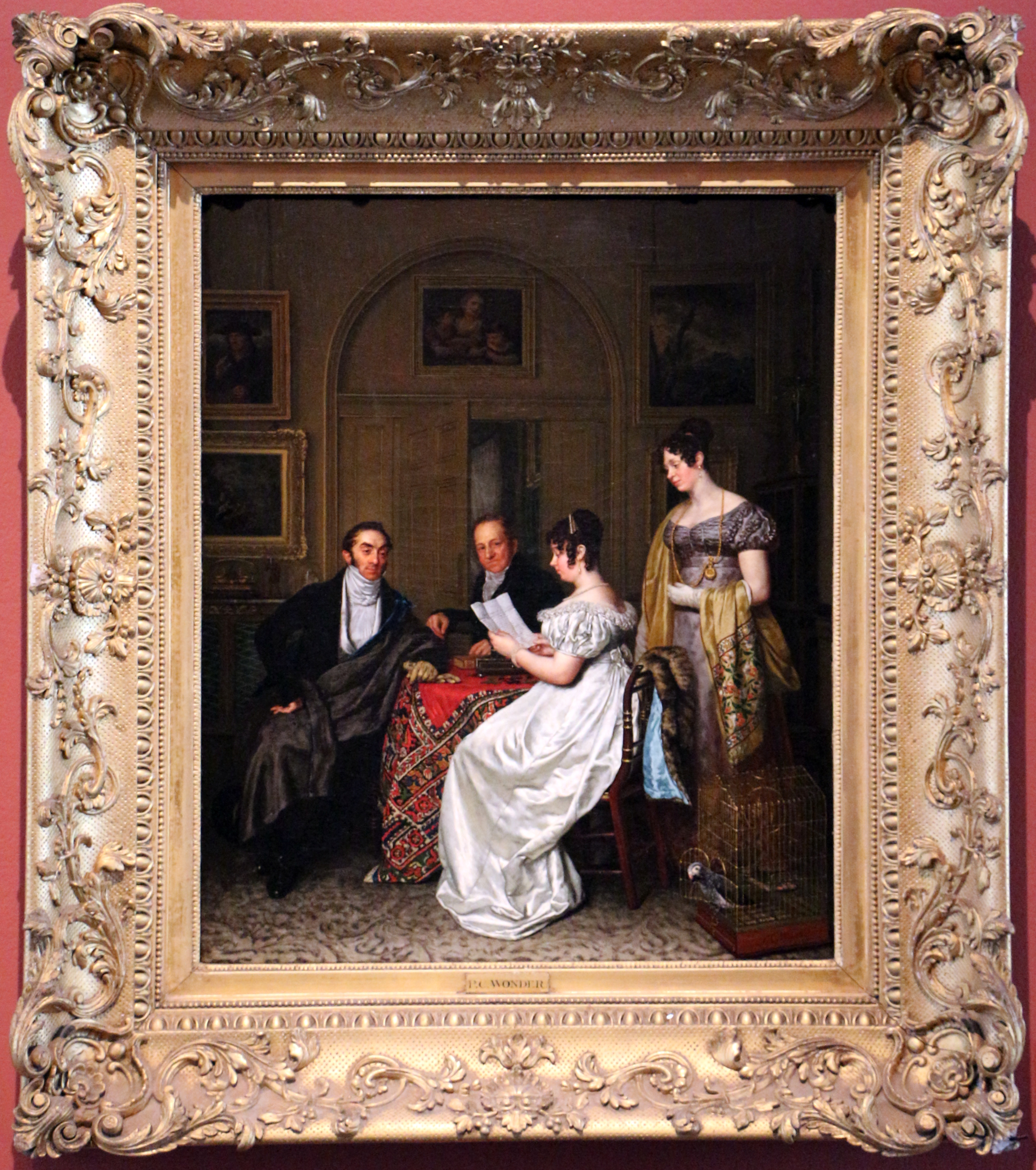 Pieter Christoffel Wonder exhibition in Centraal Museum (2016)